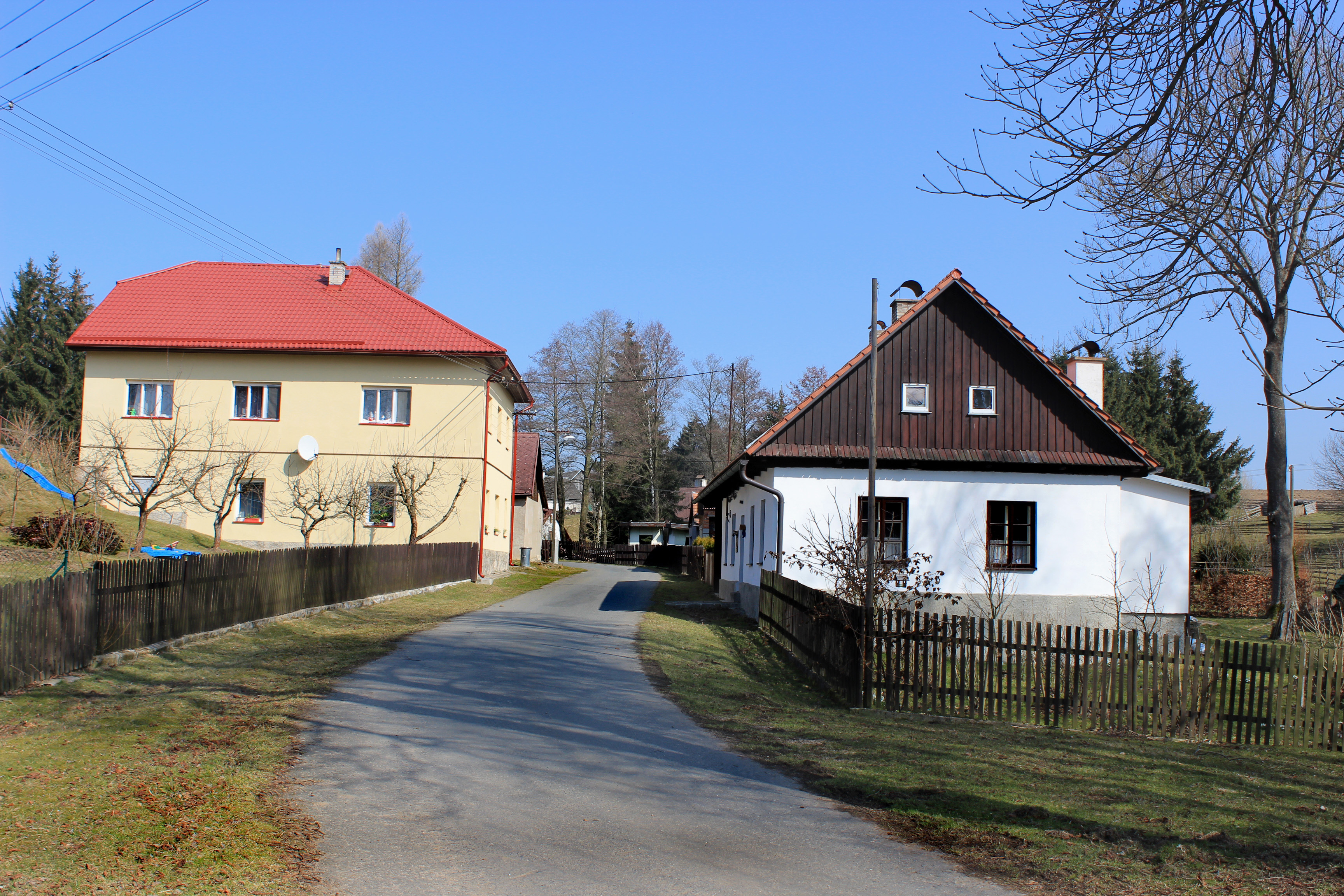 North part of Možděnice, part of Vysočina village, Czech Republic.